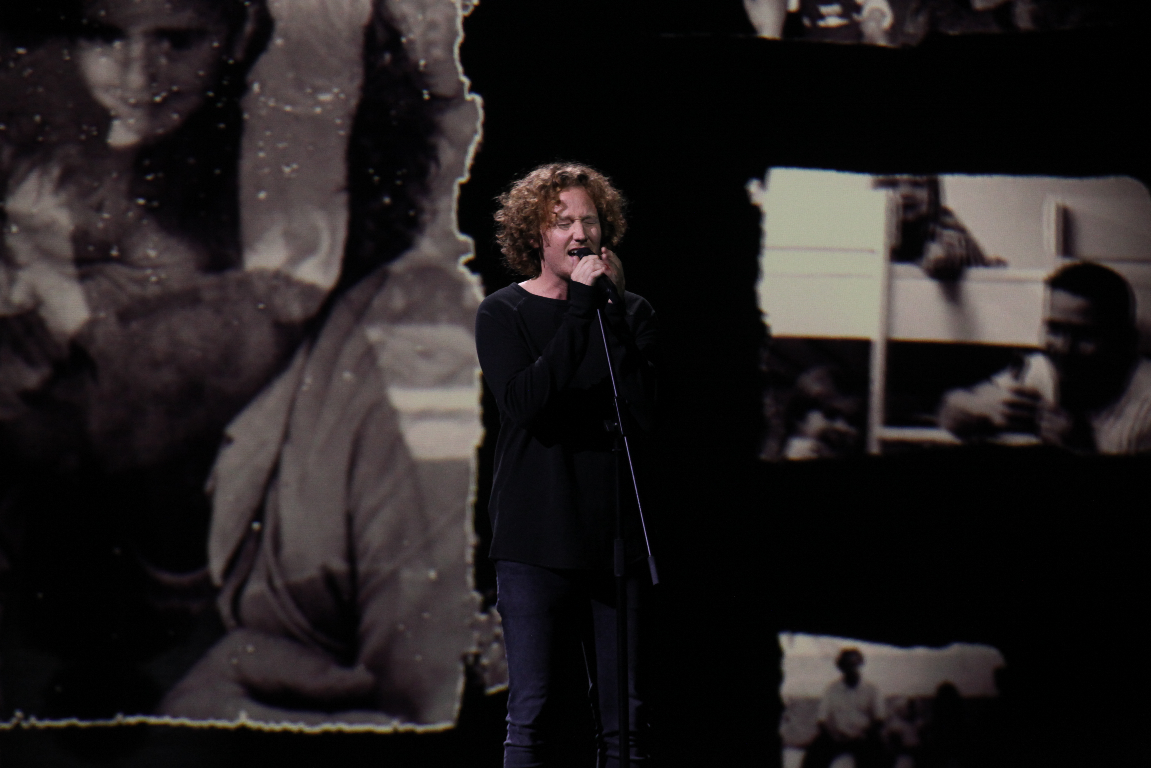 Michael Schulte representing Germany with the song "You Let Me Walk Alone" during a rehearsal before the grand final of the Eurovision Song Contest 2018 in Lisbon.